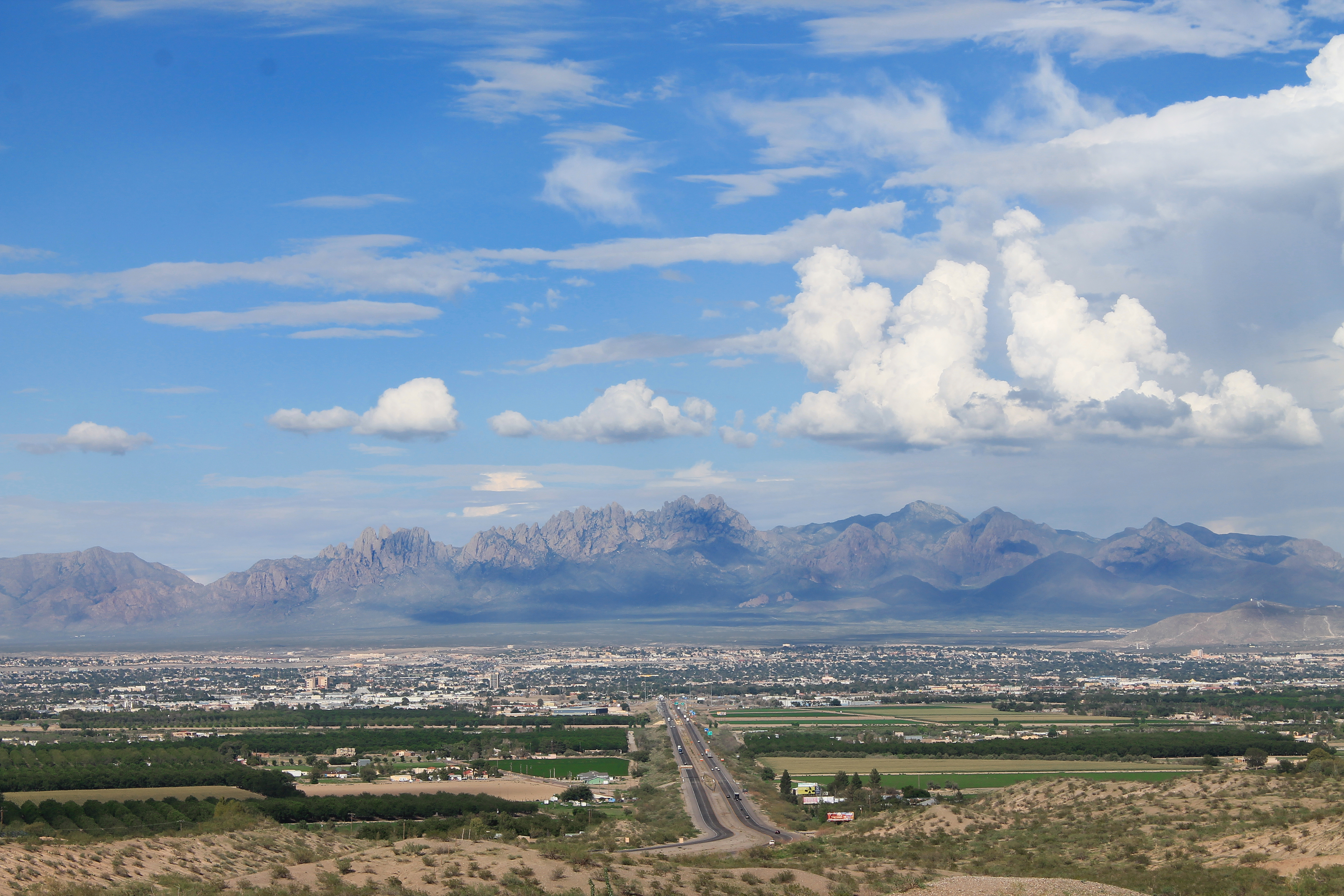 View of Las Cruces, NM with the Organ Mountains National Monument.